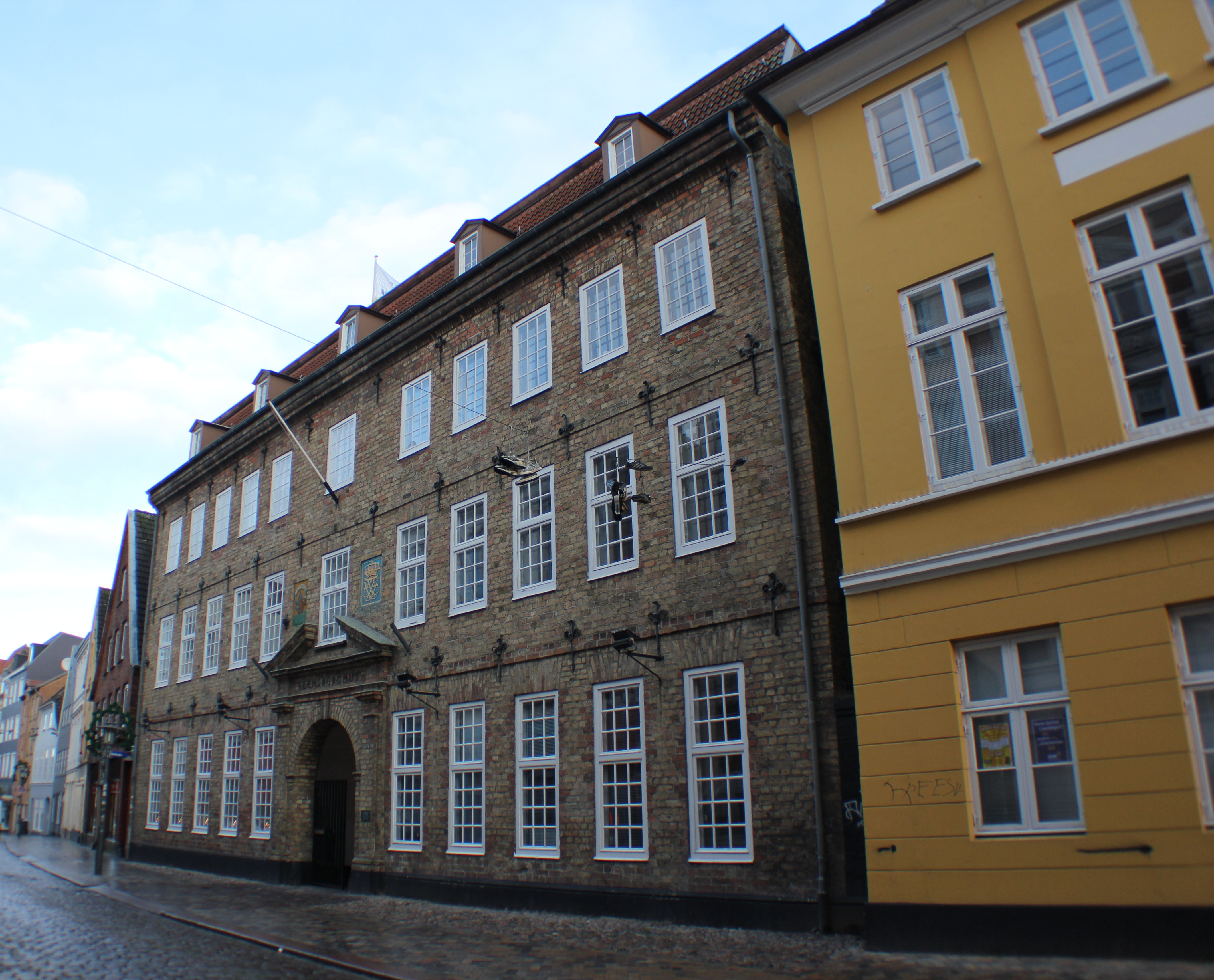 Flensborghus (Flensburg)